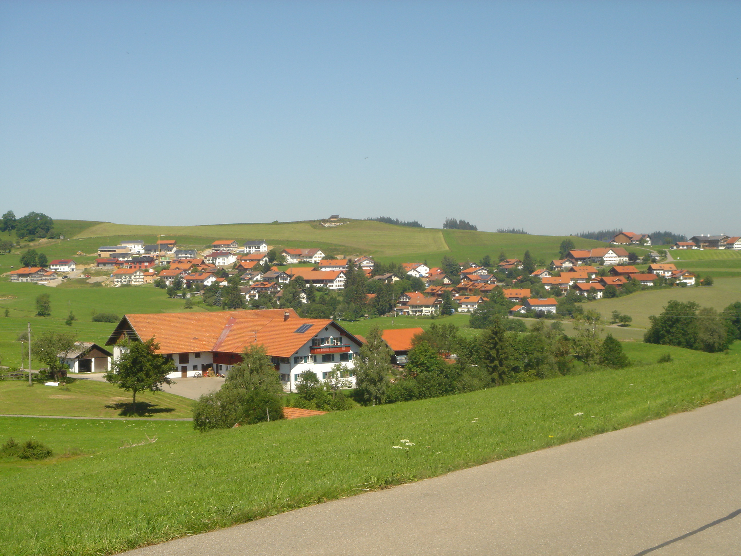 Westenried, a district of Wiggensbach